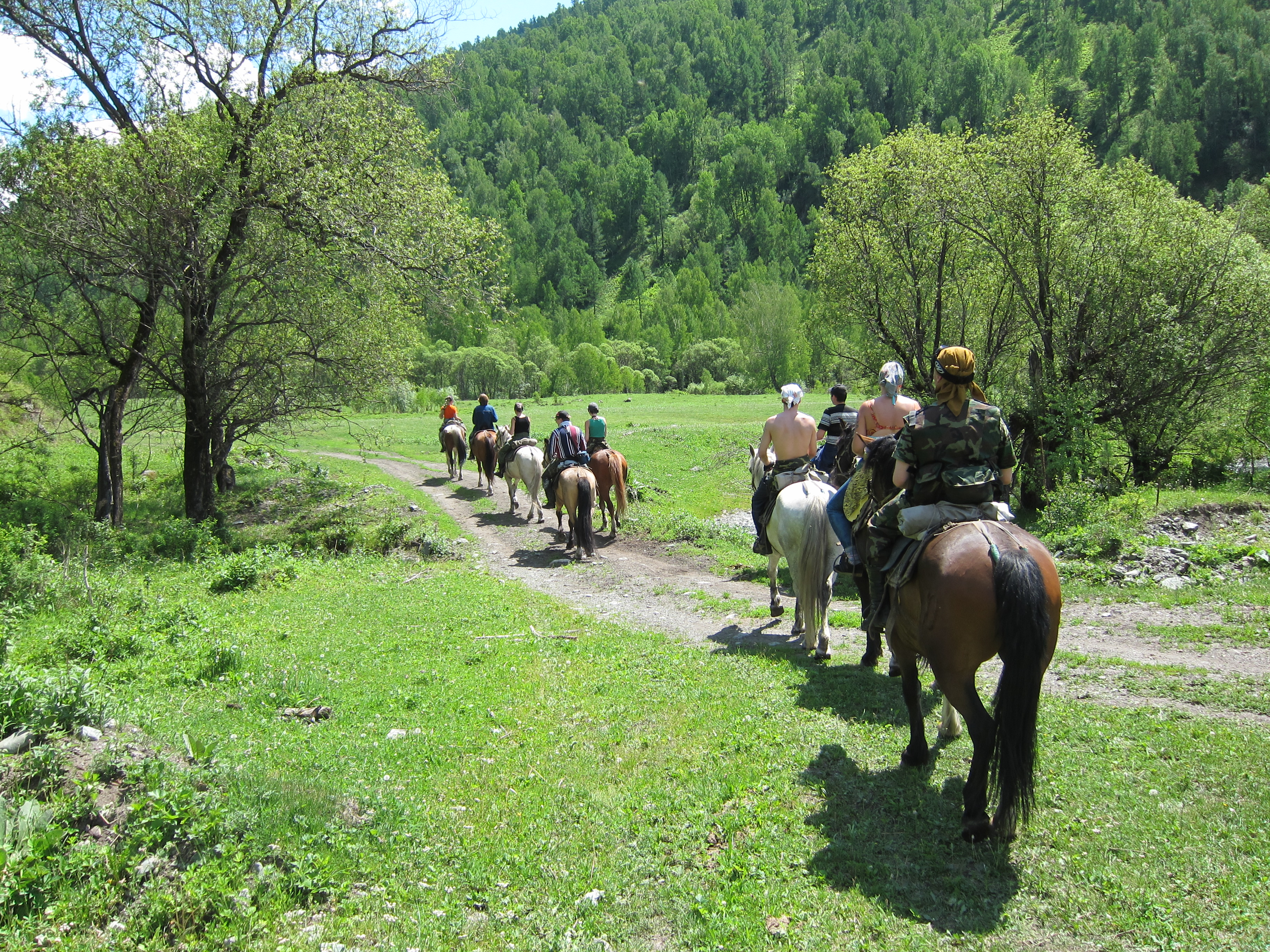 Horse riding in Chemalsky District, Altai Republic, Russia